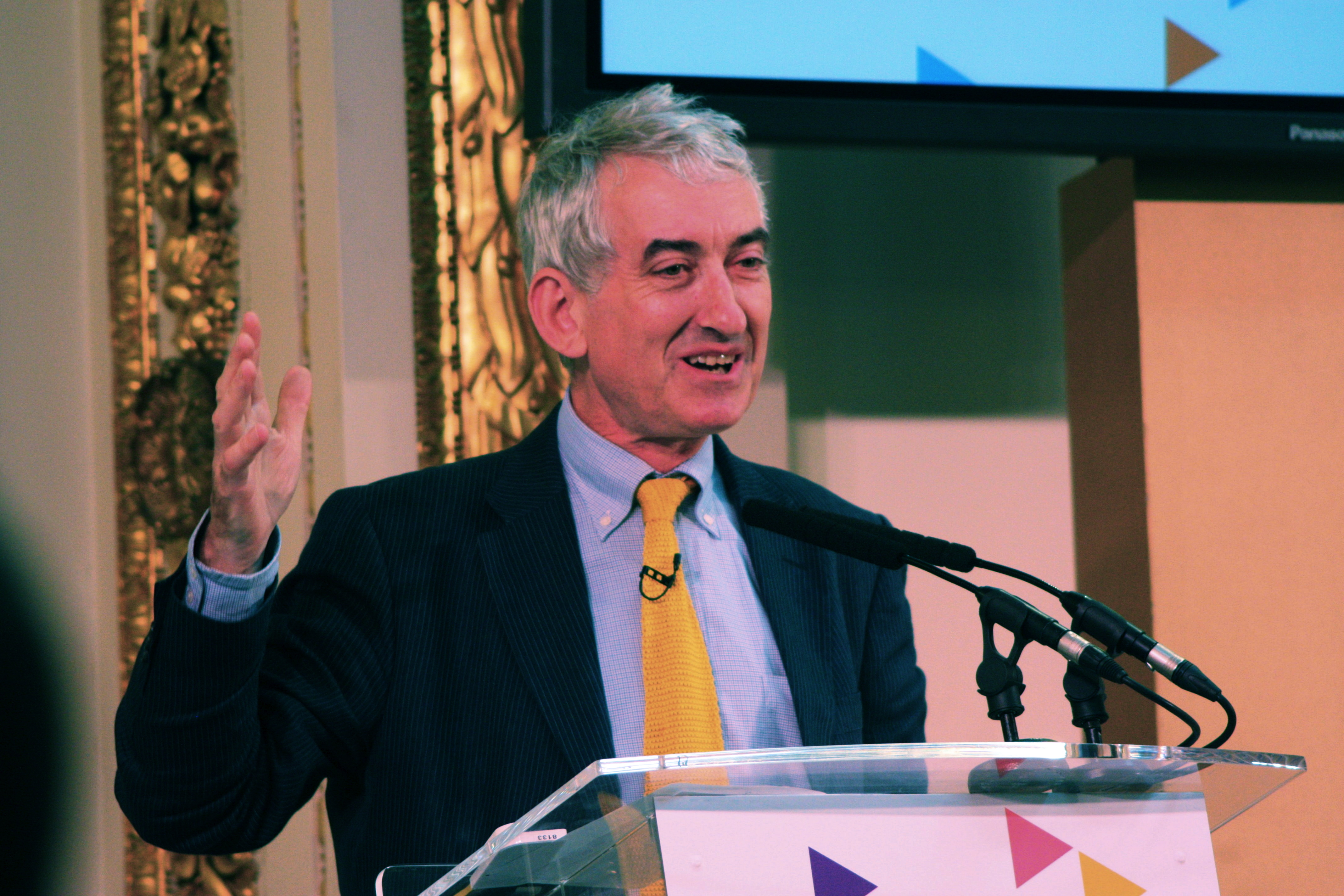 Sir Tom Shebbeare, Director, The Prince's Charities Photograph by Kate Arkless Gray